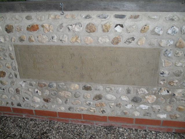 Explanatory inscription in the lych gate at St Leodegar, Hunston